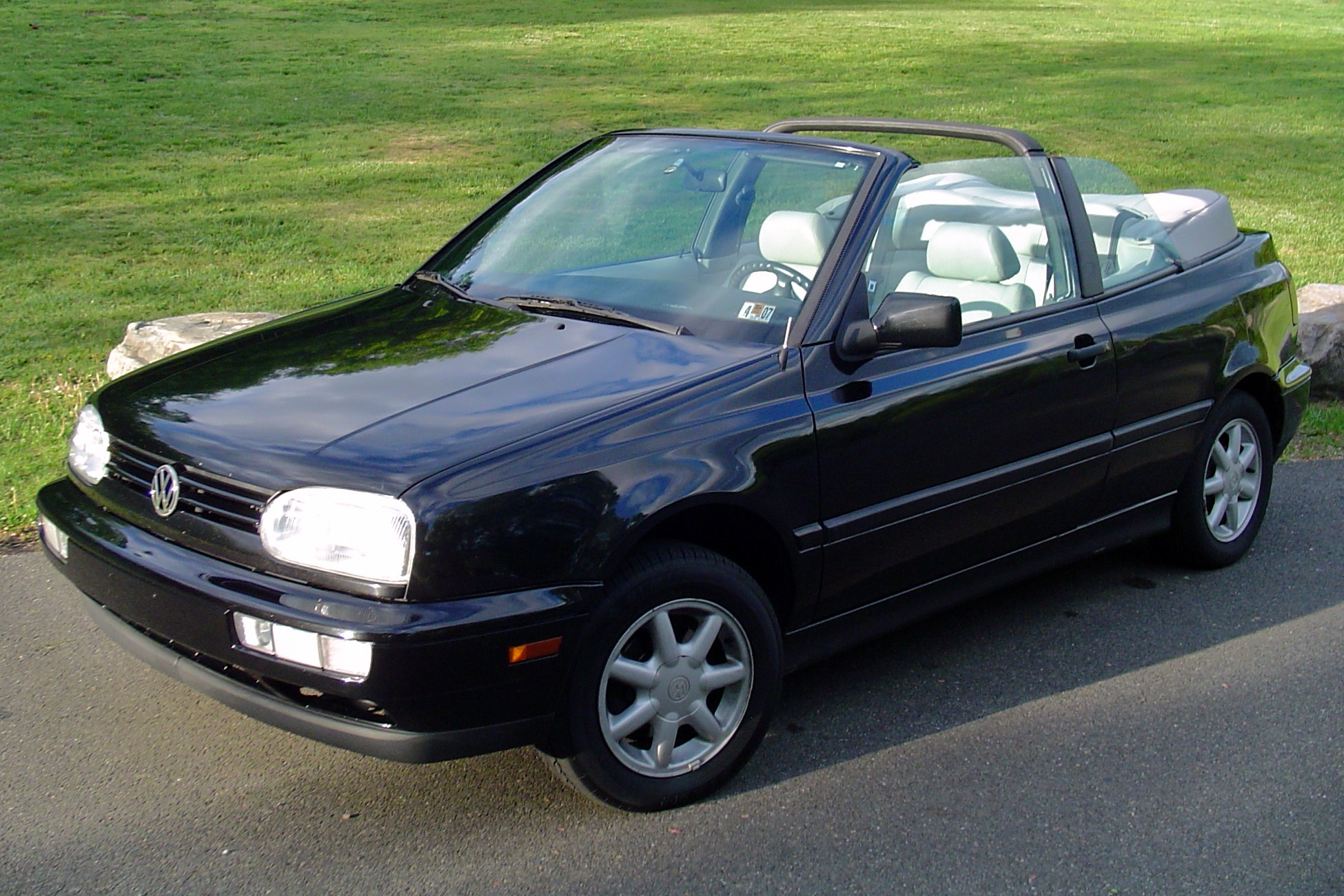 1998 Volkswagen Cabrio GLS (Black) sav127. Personal Photo shot on 5/21/2006 in Tannersville, PA.